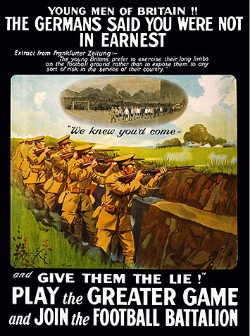 First World War British recruitment poster mentioning the Football Battalion.